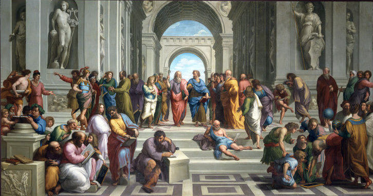 Scuola di Atene